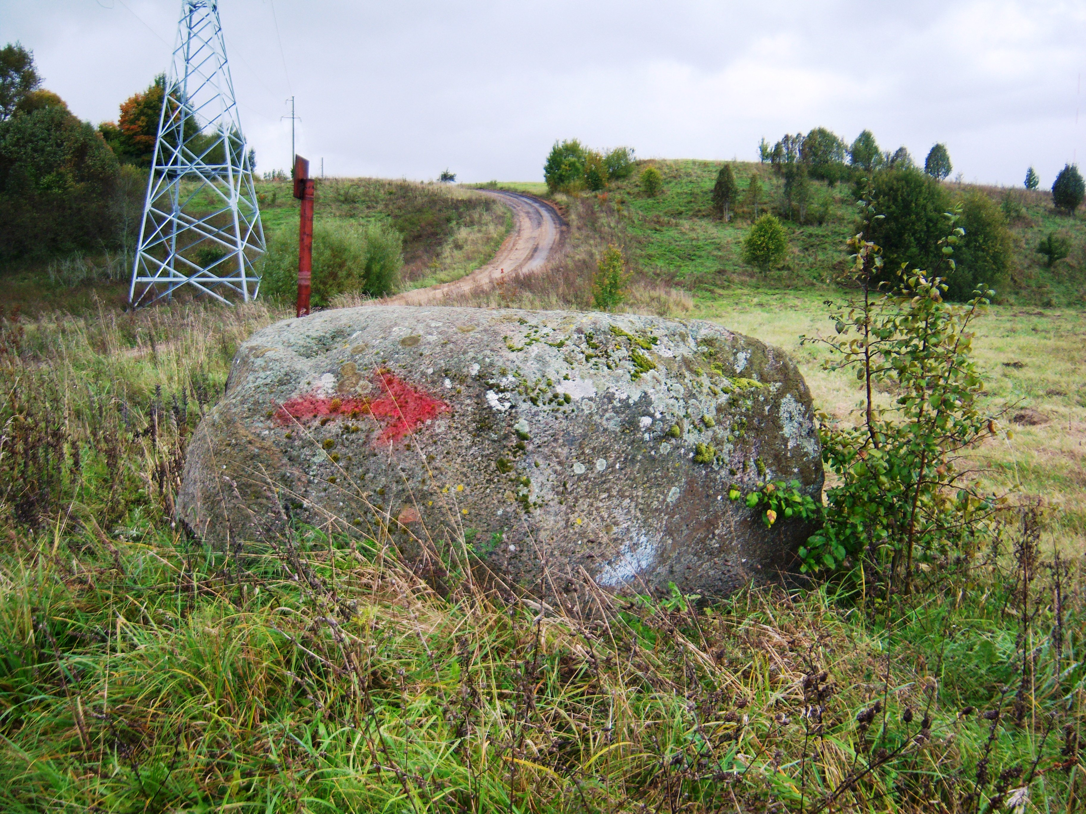 Varkalės stone, Kaišiadorys District, Lithuania